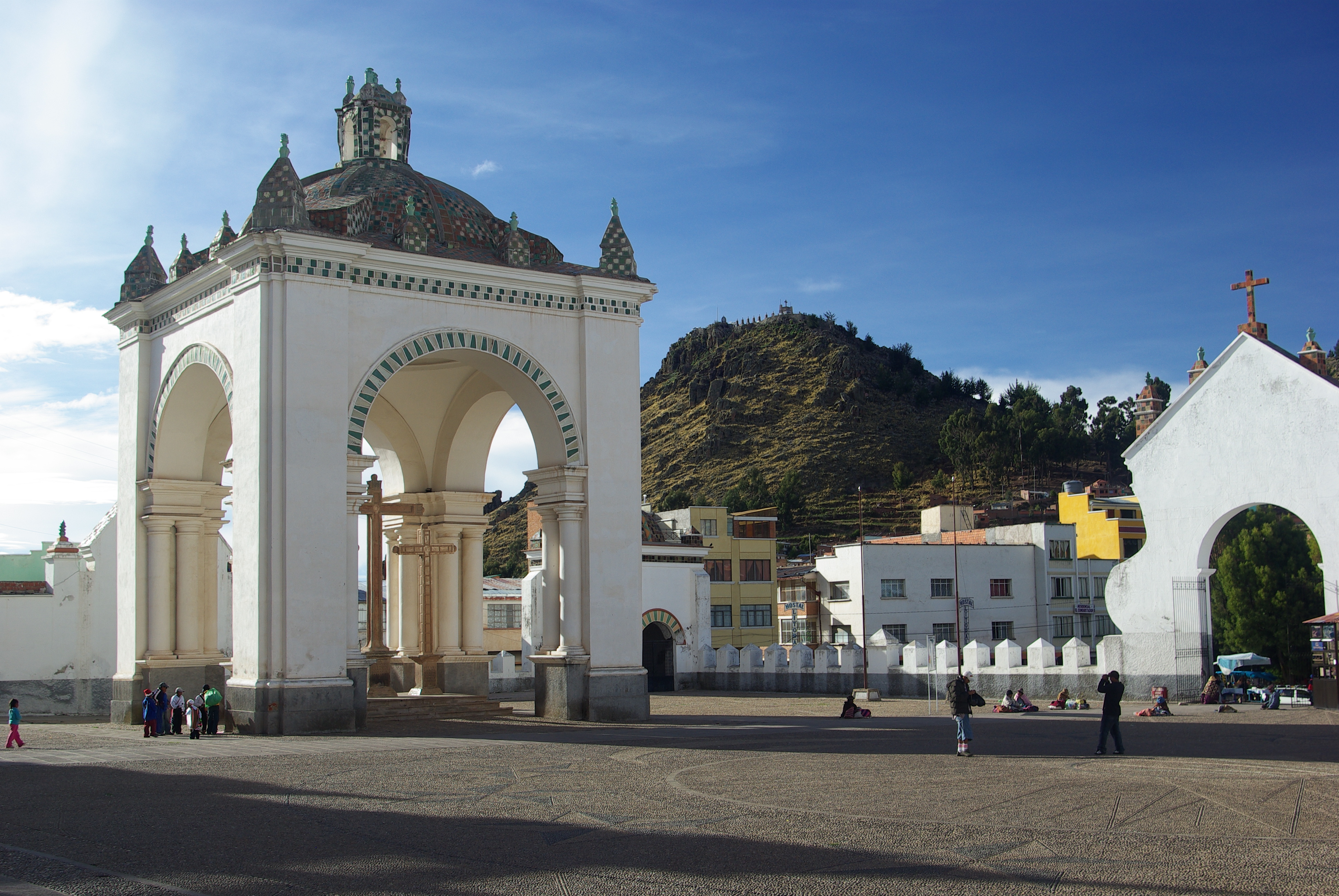 Basilica of Our Lady of Copacabana, Bolivia. A view of the courtyard, and in the background, the replica "Calvary".